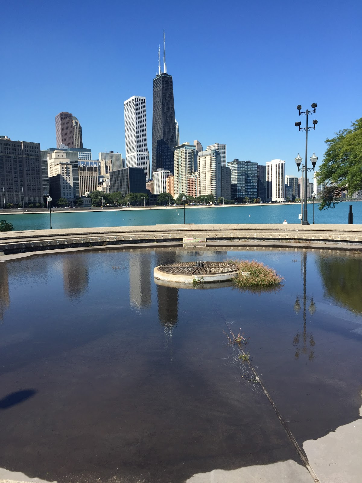 This is a picture taken at Milton Lee Olive Park in Chicago, IL. The picture depicts the view from the park and one of its five fountains currently unused.